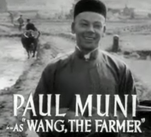 Cropped screenshot of Paul Muni from the trailer for the film The Good Earth